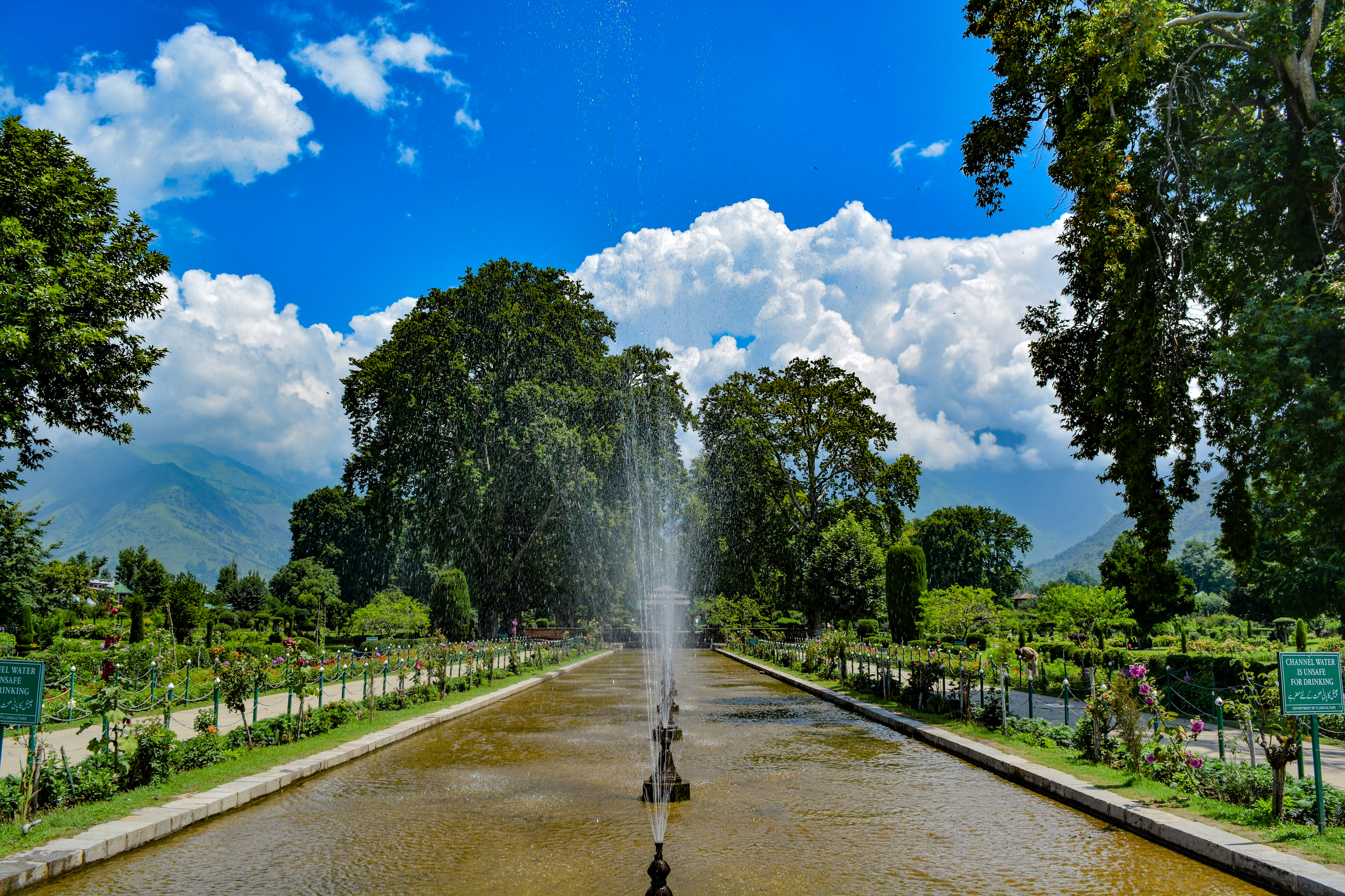 Shalimar Gardens, Kashmir